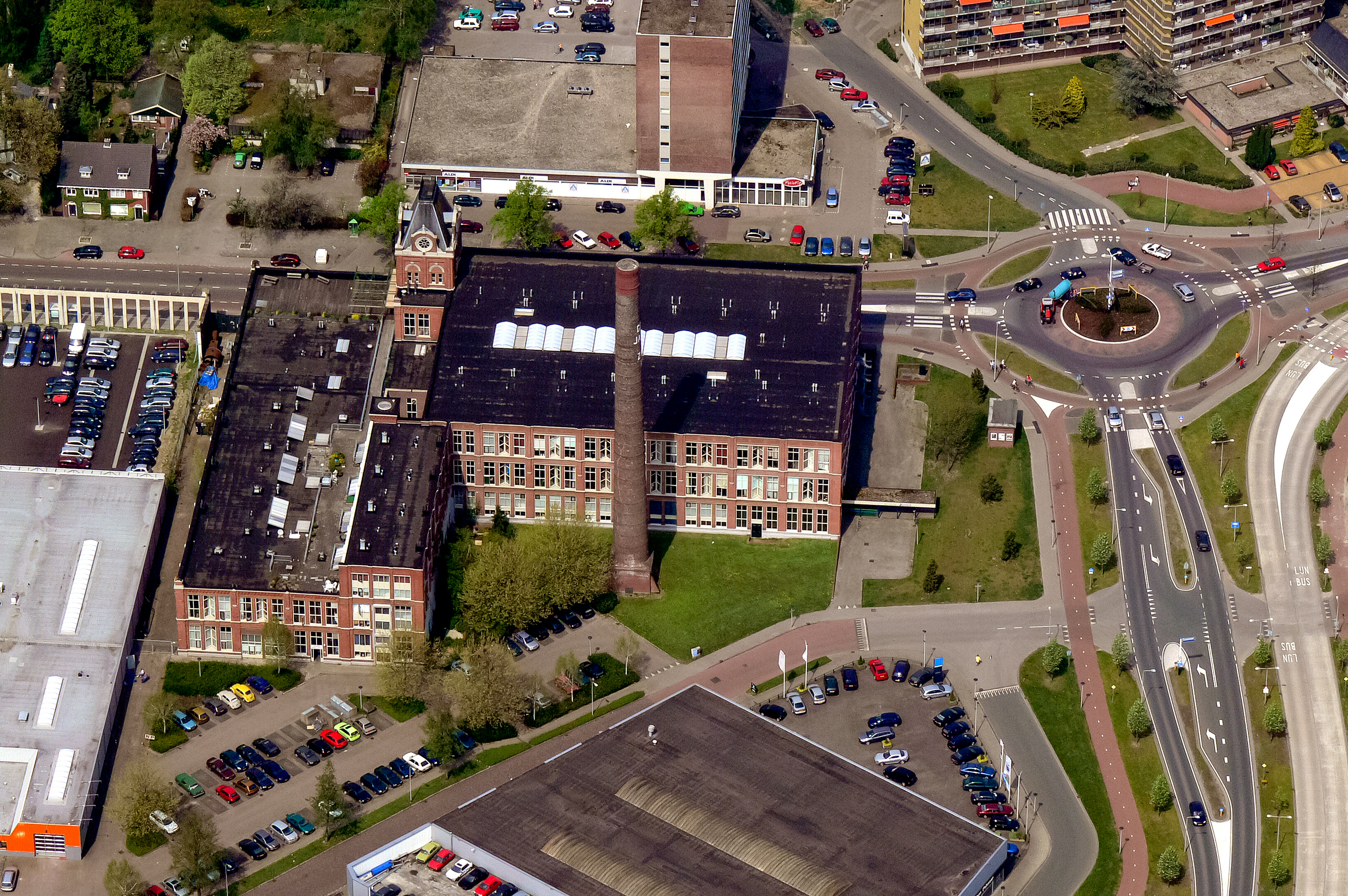 Aerial - Fabriekscomplex Jannink